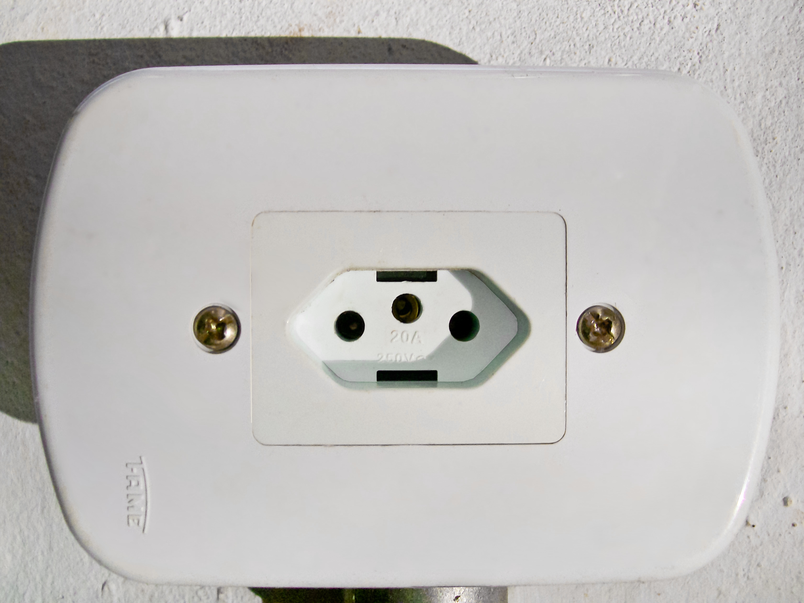 Brazilian 20 A, 250 V socket-outlet with 4.8mm pin apertures to NBR 14136 standard. Photo taken in Campinas, Brazil.